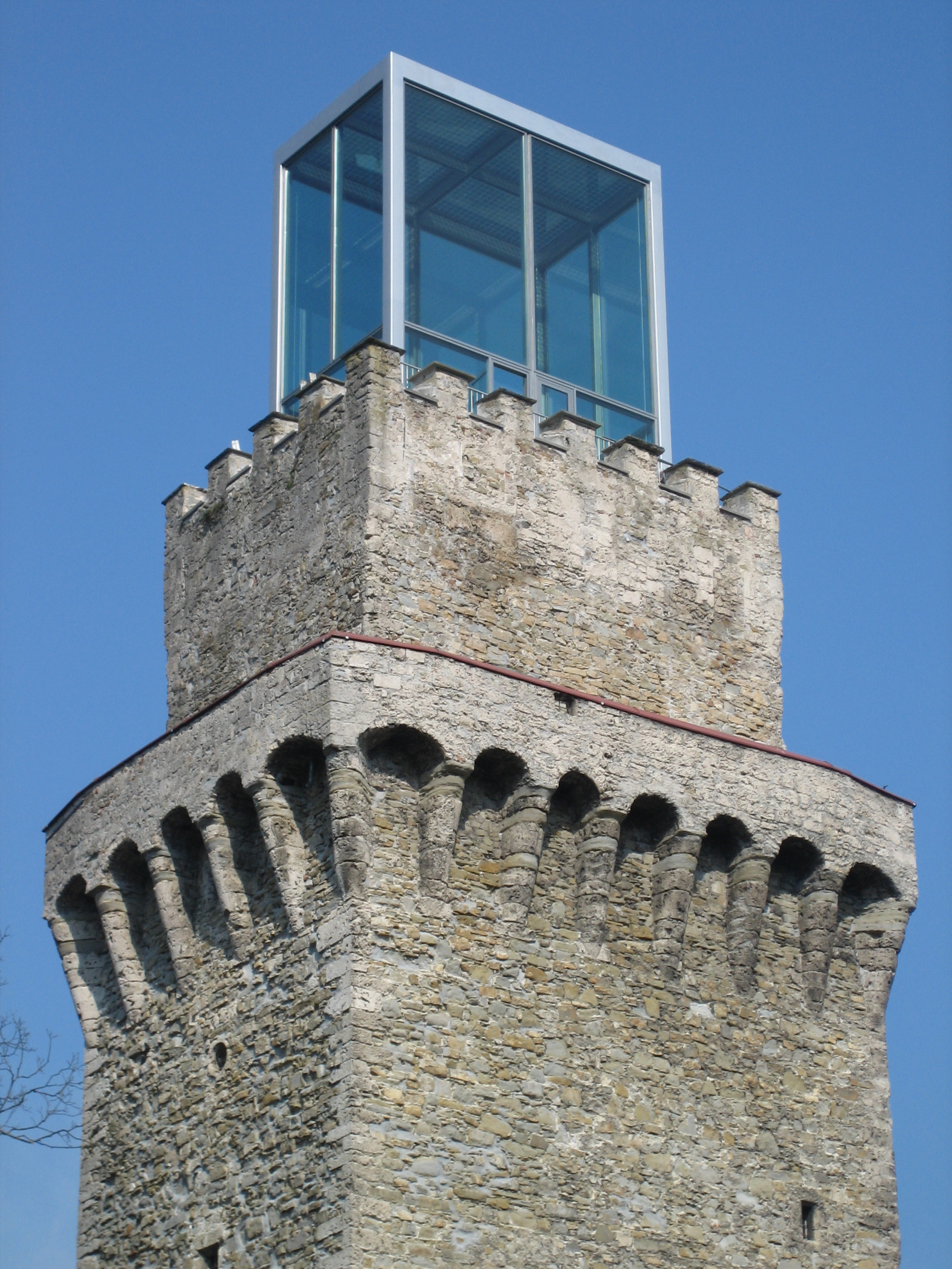 Rothschild-Castle, Waidhofen an der Ybbs, Lower Austria, Austria, Austria: Medieval tower, built approximately between 1380 and 1410. On the top an added on metall-glas-construction (2006).